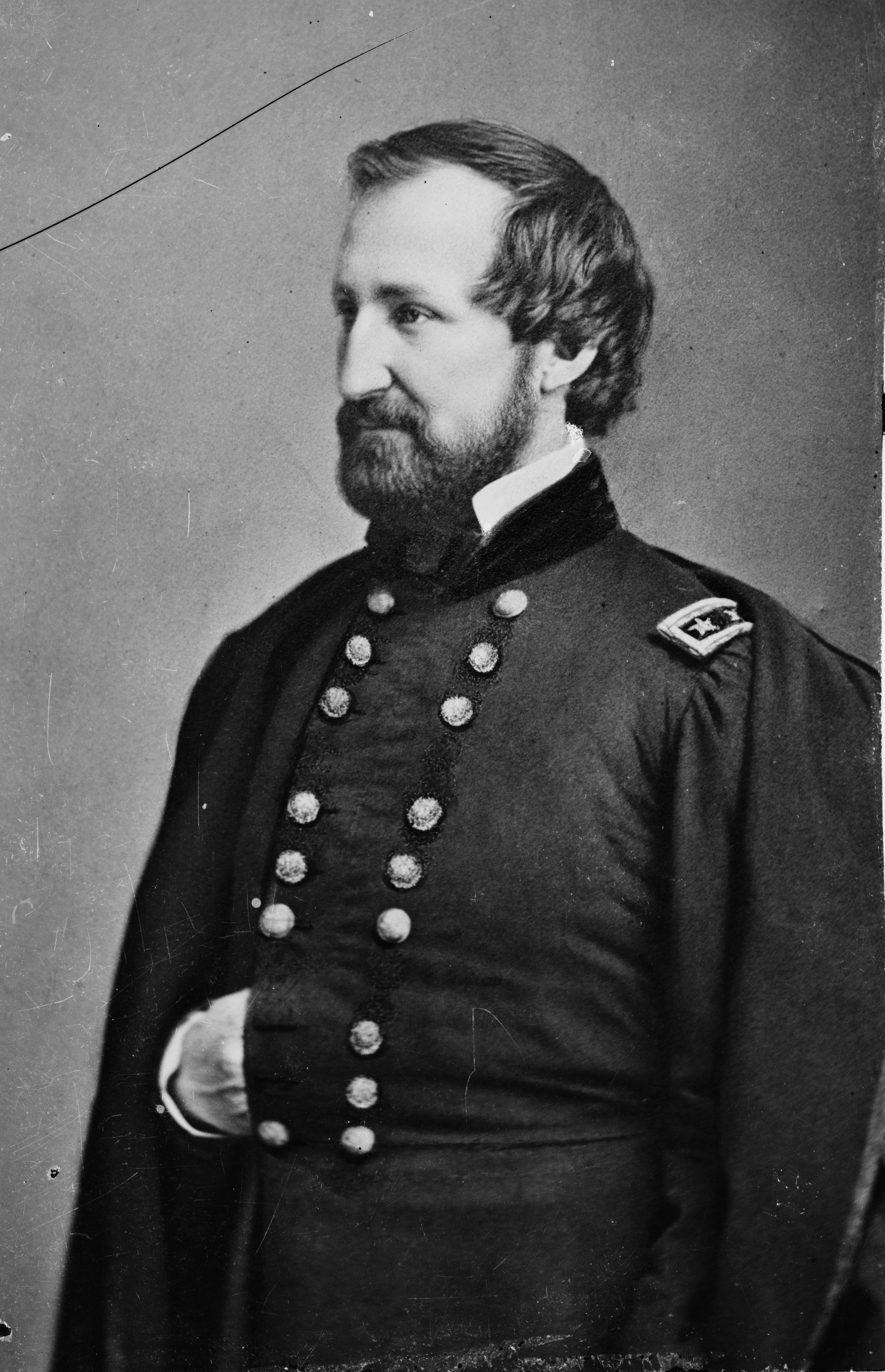 William Rosecrans. Library of Congress description: "Gen. Wm. S. Rosecrans"